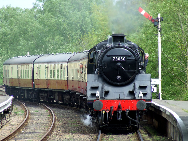 Preserved steam engine 73050 City of Peterborough